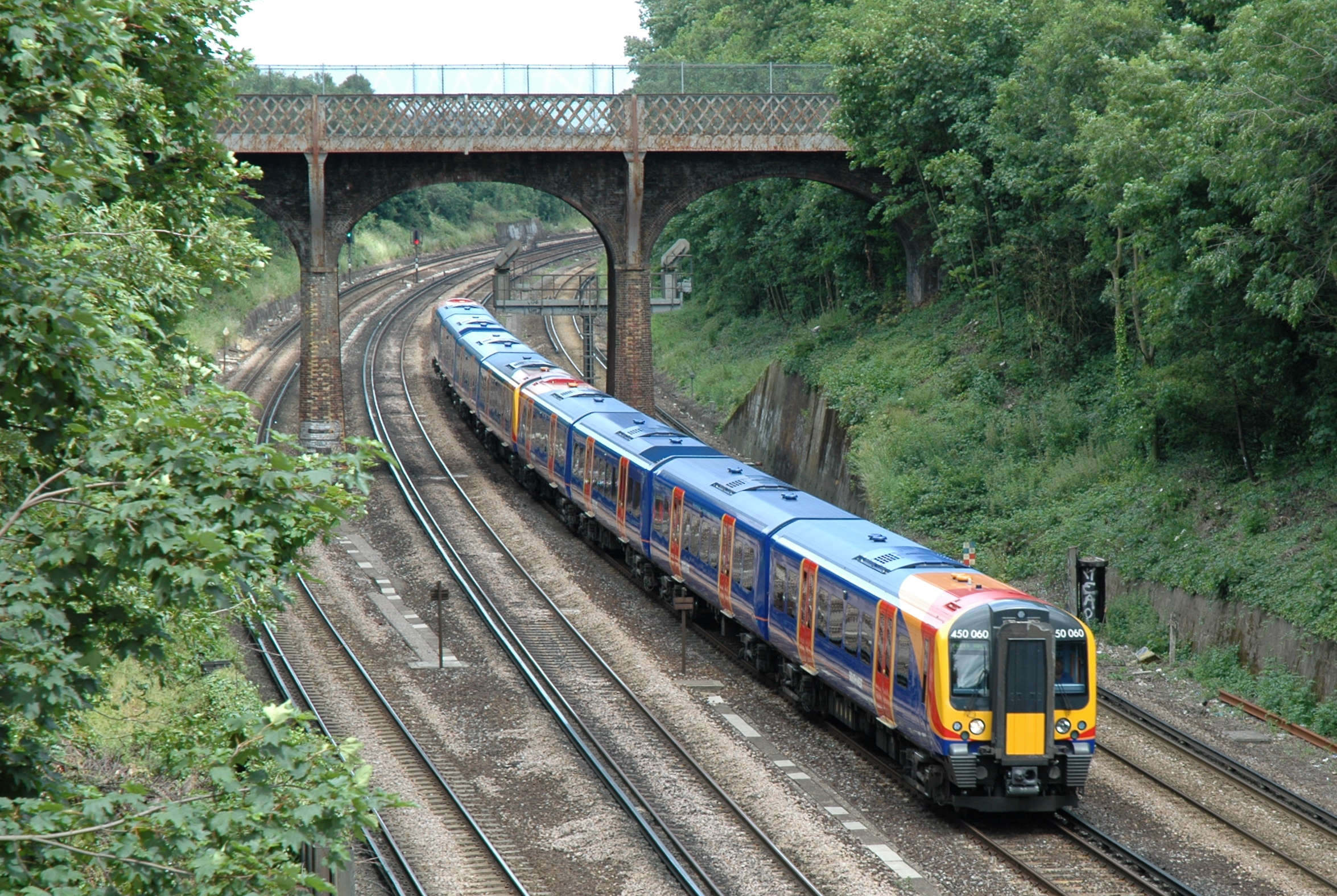 Two class 450 Desiro EMUs between Berrylands and Surbiton